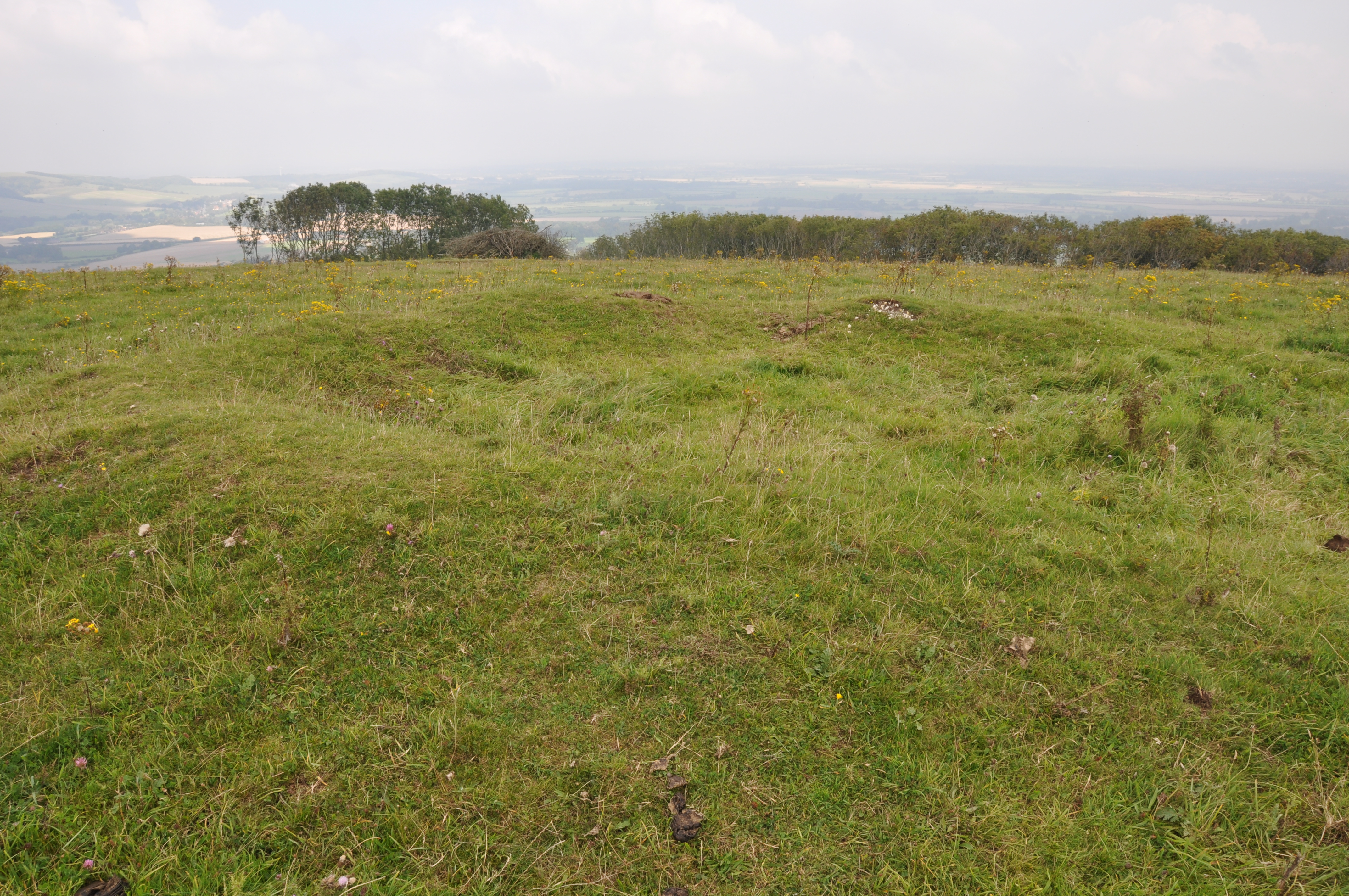 A saucer barrow, a bowl barrow and a pair of hlaews 350m north west of Overhill Lodge